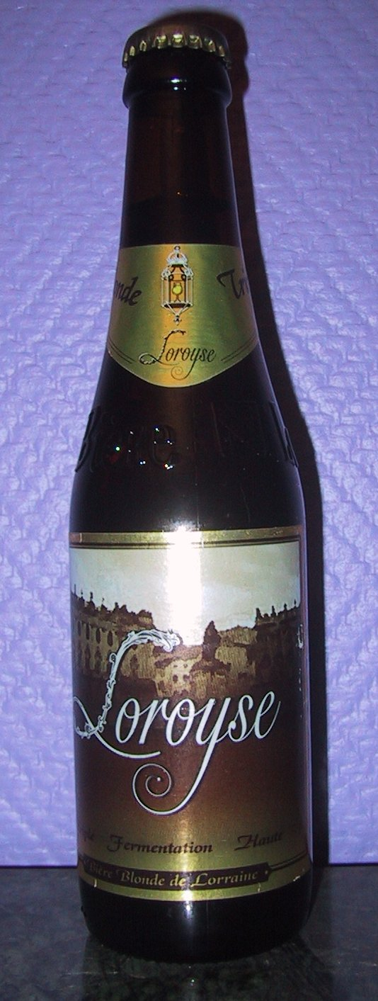 Loroyse beer